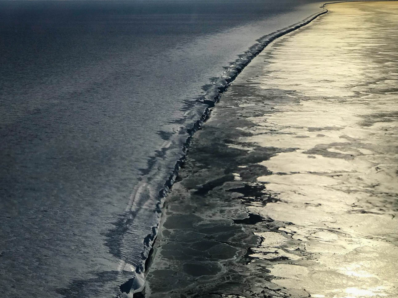 Edge of the Ronne Ice Shelf, as seen during an Operation IceBridge flight on Nov. 4, 2017. (NASA/Nathan Kurtz) The 2017 field season was record-breaking for Operation IceBridge, NASA’s aerial survey of the state of polar ice. For the first time in its nine-year history, the mission, which aims to close the gap between two NASA satellite campaigns that study changes in the height of polar ice, carried out seven field campaigns in the Arctic and Antarctic in a single year. In total, the IceBridge scientists and instruments flew over 214,000 miles, the equivalent of orbiting the Earth 8.6 times at the equator. The mission of Operation IceBridge, NASA’s longest-running airborne mission to monitor polar ice, is to collect data on changing polar land and sea ice and maintain continuity of measurements between ICESat missions. The original ICESat mission launched in 2003 and ended in 2009, and its successor, ICESat-2, is scheduled for launch in the fall of 2018. Operation IceBridge began in 2009 and is currently funded until 2020. The planned overlap with ICESat-2 will help scientists connect with the satellite’s measurements. Read more: For more about Operation IceBridge and to follow future campaigns, visit: NASA image use policy NASA Goddard Space Flight Center enables NASA’s mission through four scientific endeavors: Earth Science, Heliophysics, Solar System Exploration, and Astrophysics. Goddard plays a leading role in NASA’s accomplishments by contributing compelling scientific knowledge to advance the Agency’s mission. Follow us on Twitter Like us on Facebook Find us on Instagram